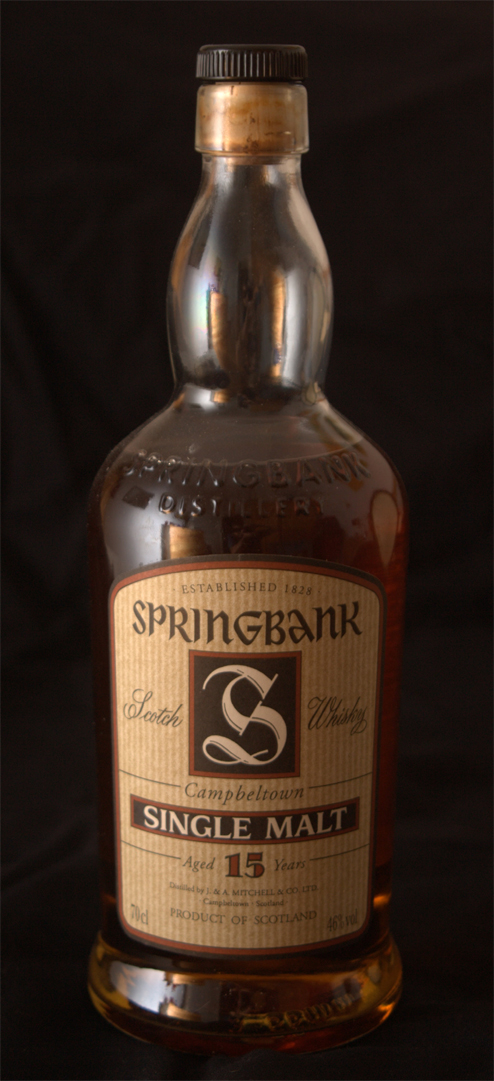 Picture of a bottle of Springbank 15 years old-whisky (small size)